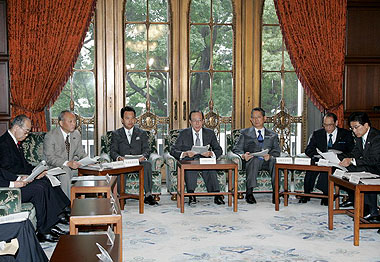 Yasuo Fukuda, Prime Minister, attended the Ministerial Meeting on Pension Record Problems at the National Diet Building in Chiyoda Ward, Tōkyō Metropolis on October 19, 2007. Hiroya Masuda, Minister for Internal Affairs and Communications, and Yōichi Masuzoe, Minister of Health, Labour and Welfare, each gave explanations of responses to the pension record problems, their implementation status, and further measures to be taken, and requested the cooperation of the other ministers.